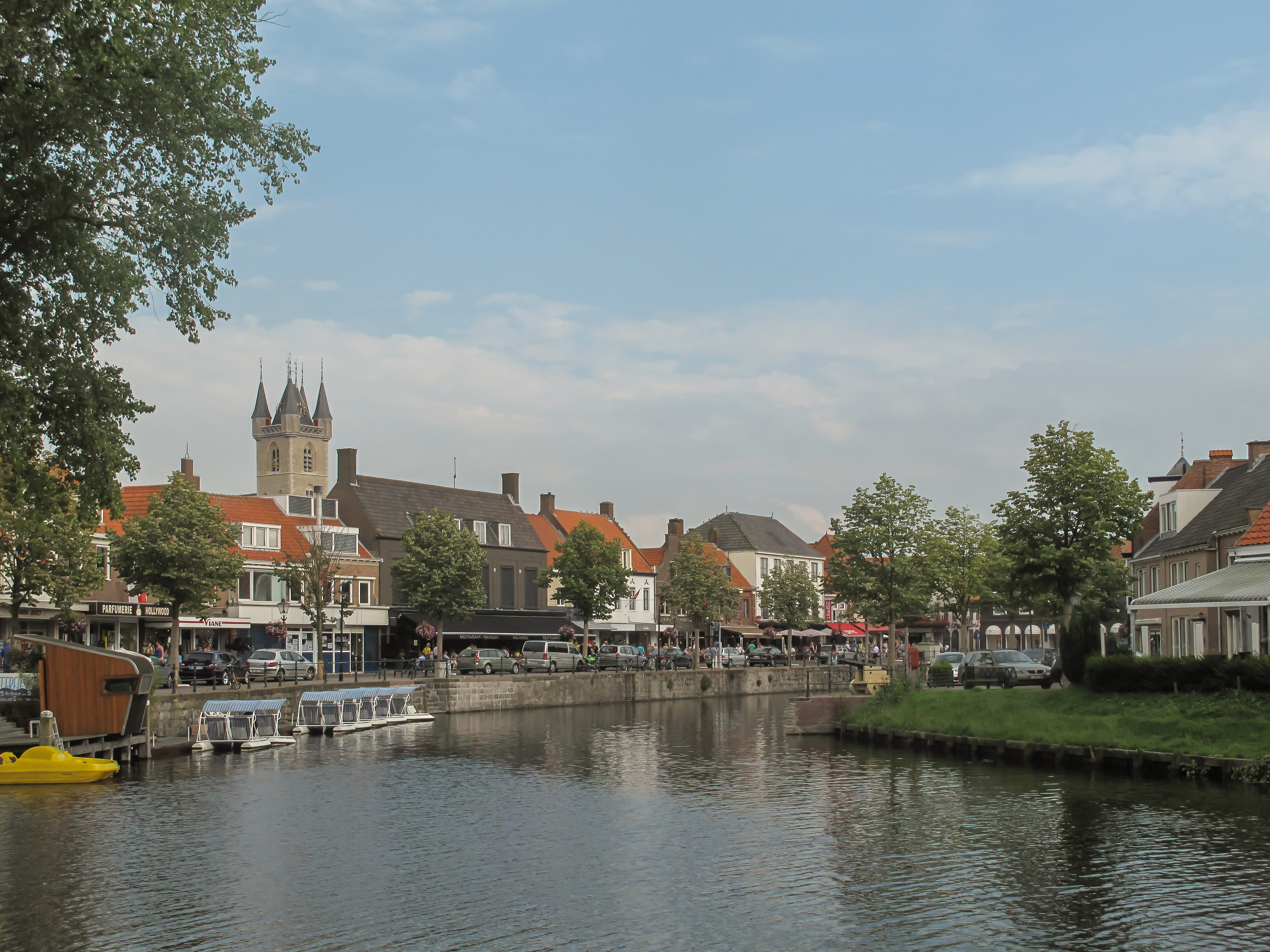 Sluis, view to the town